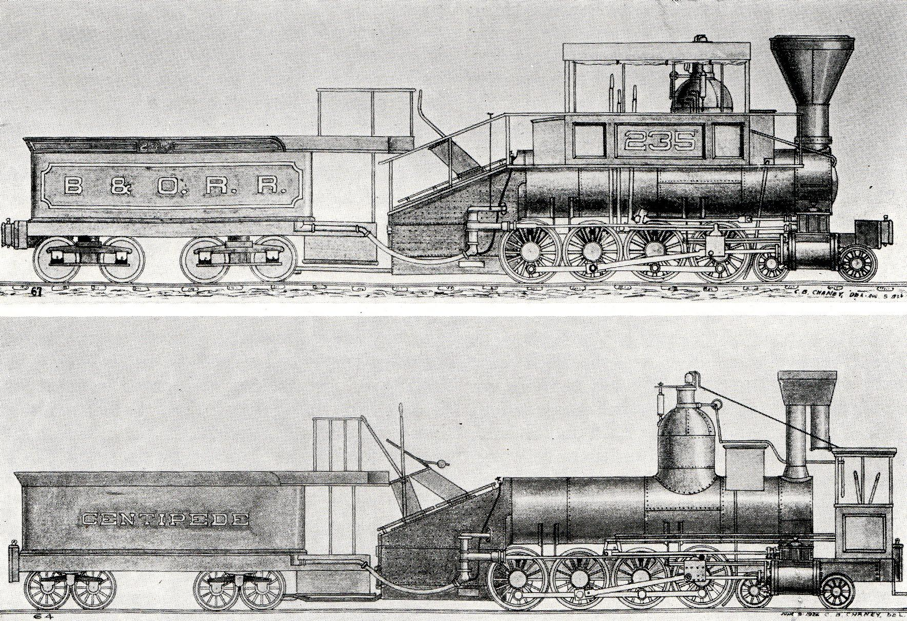 Centipede as built in 1855 below. Above is after 1864 modifications.